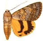 PLATE CXCV.